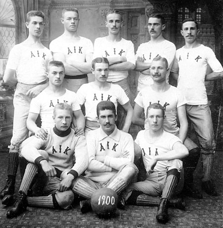 AIK won its first Swedish championship title in 1900. Back row from left: Gunnar Juhlin, Herman Juhlin, Gunnar Franzén, Ocsar Norgren och B Bergquist (reserv för Knut Norgren). Mittraden: Hugo Berg, Fritz Carlsson, Gunnar Stenberg. Front row: David Jahrl, Edvin Sandborg, Karl G Andersson.